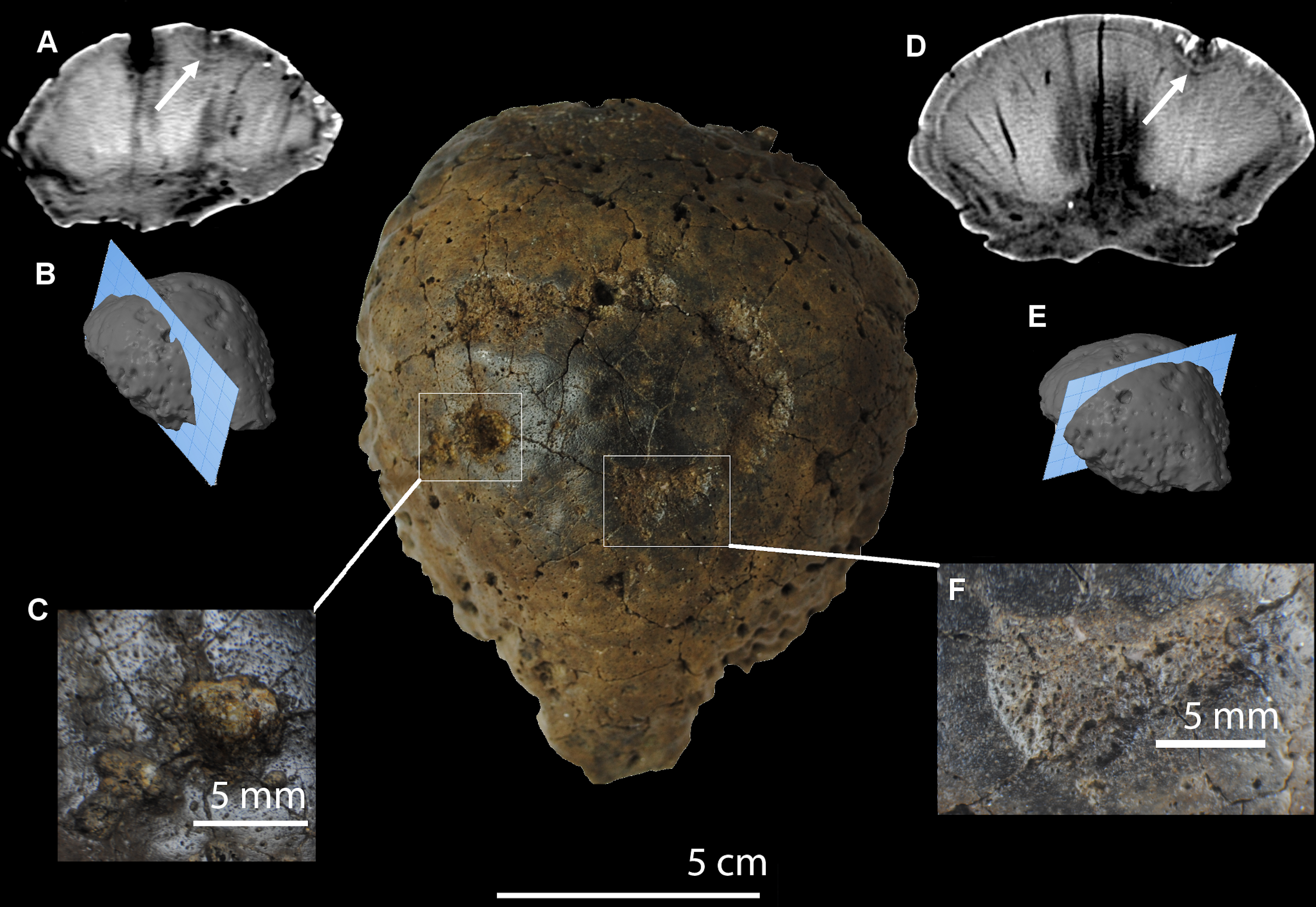 Computed tomography images from TMP 79.14.853, Hansseusia sternbergi. Scale bar equals 5 cm. Sagittal section (A, B) of frontoparietal with arrow annotating low-density region immediately ventral to dorsal lesion (C); Coronal section (D, E) of frontoparietal dome illustrating low-density region immediately ventral to dorsal lesion (F).